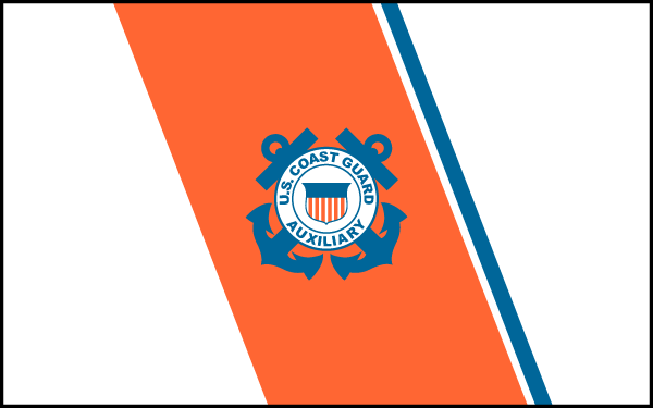 U.S. Coast Guard Auxiliary Patrol Boat Ensign is authorized to be flown on all Auxiliary Operational Facility vessels under orders, as regulated by the Auxiliary Operations Policy Manual, COMDTINST M16798.3 (series).